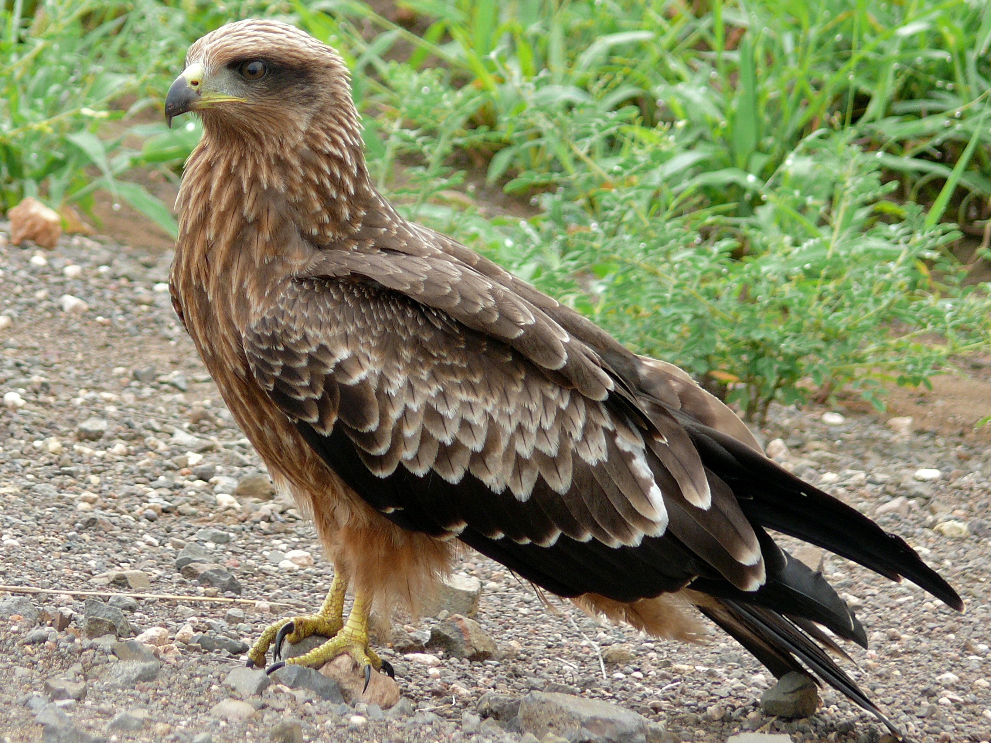 S90 South of Olifants, Kruger NP, SOUTH AFRICA